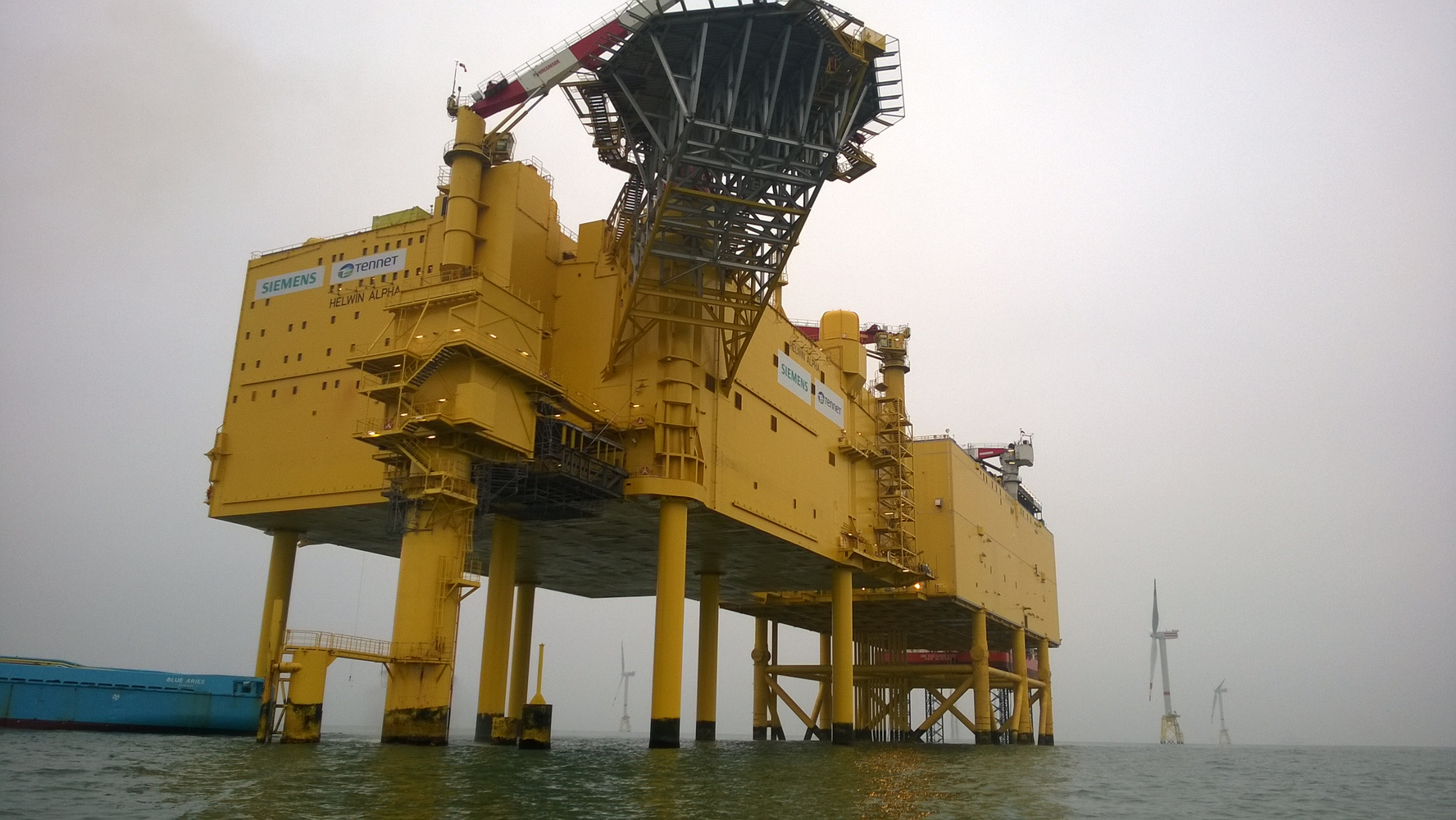 HelWin alpha (foreground) und HelWin beta (background) offshore HVDC converter platforms in the German North Sea